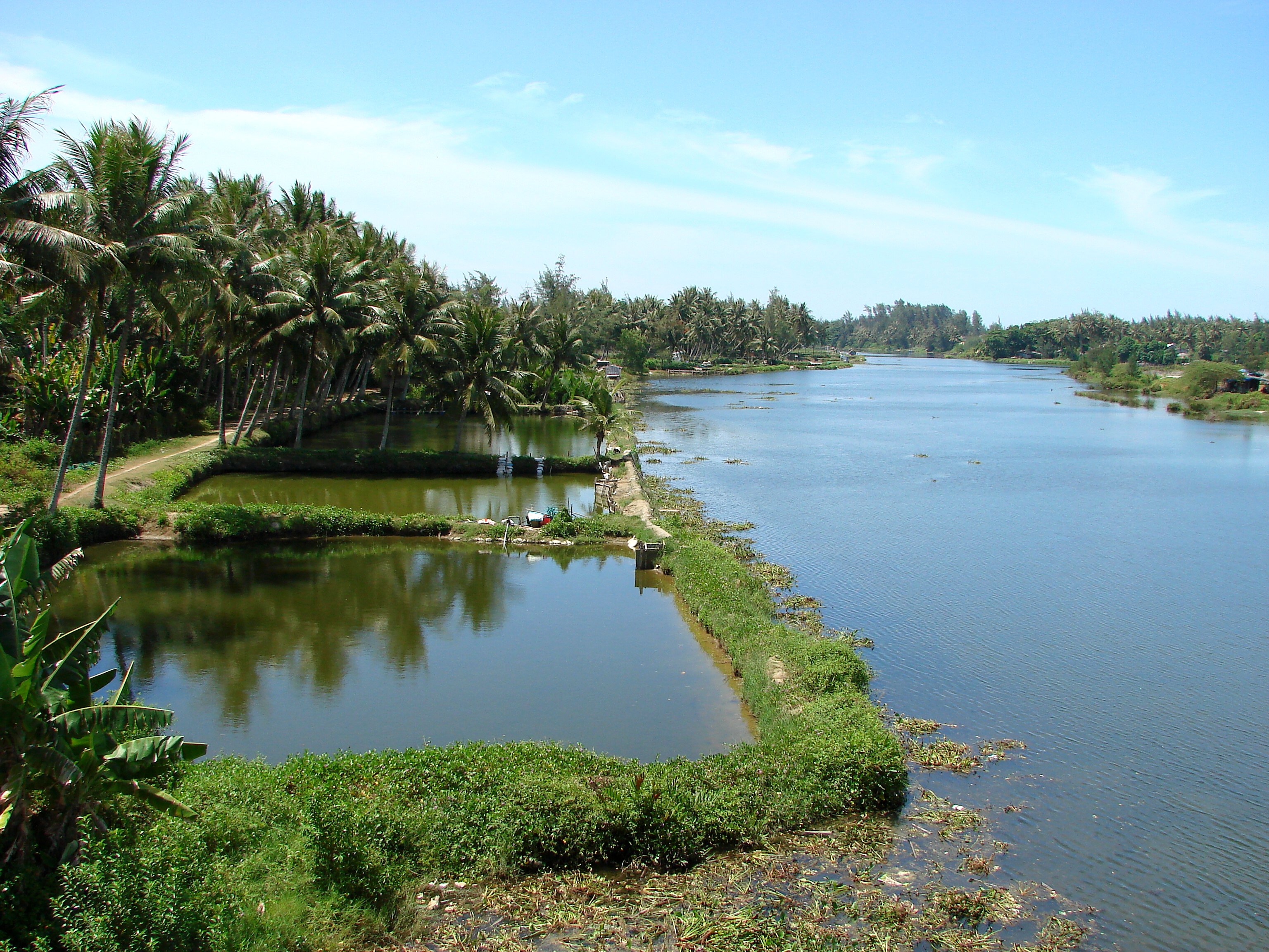 Near the entrance to Co Luy hamlet - My Lai massacre site, 16 March 1968. June 2009.